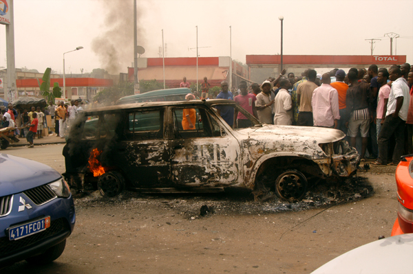 Ivorian youngsters torch a UN car on a crossing in Riviera II, Abidjan, Côte d'Ivoire, 13/1/2010